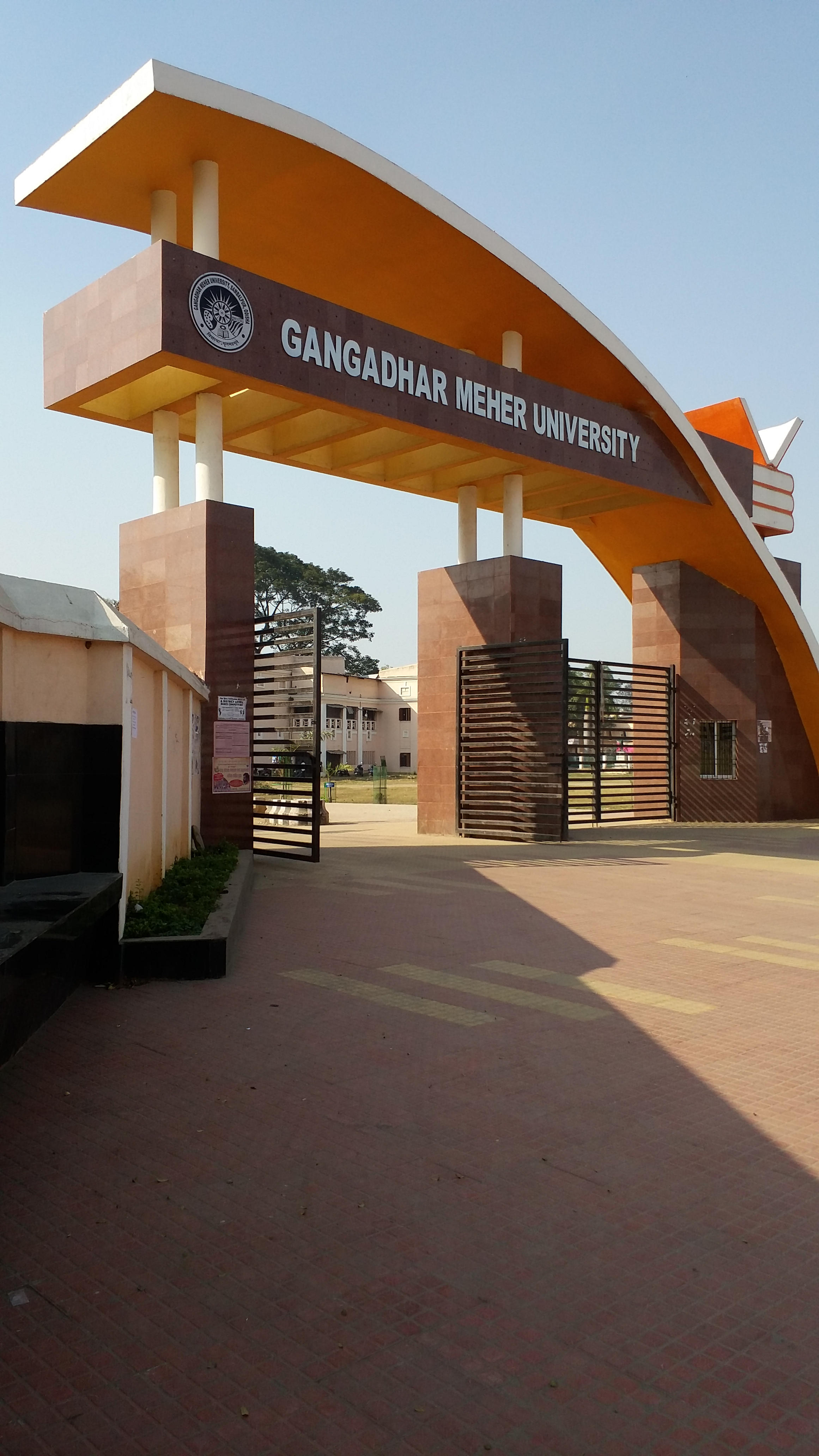 Entrance Gate of gangadhar meher university, Sambalpur